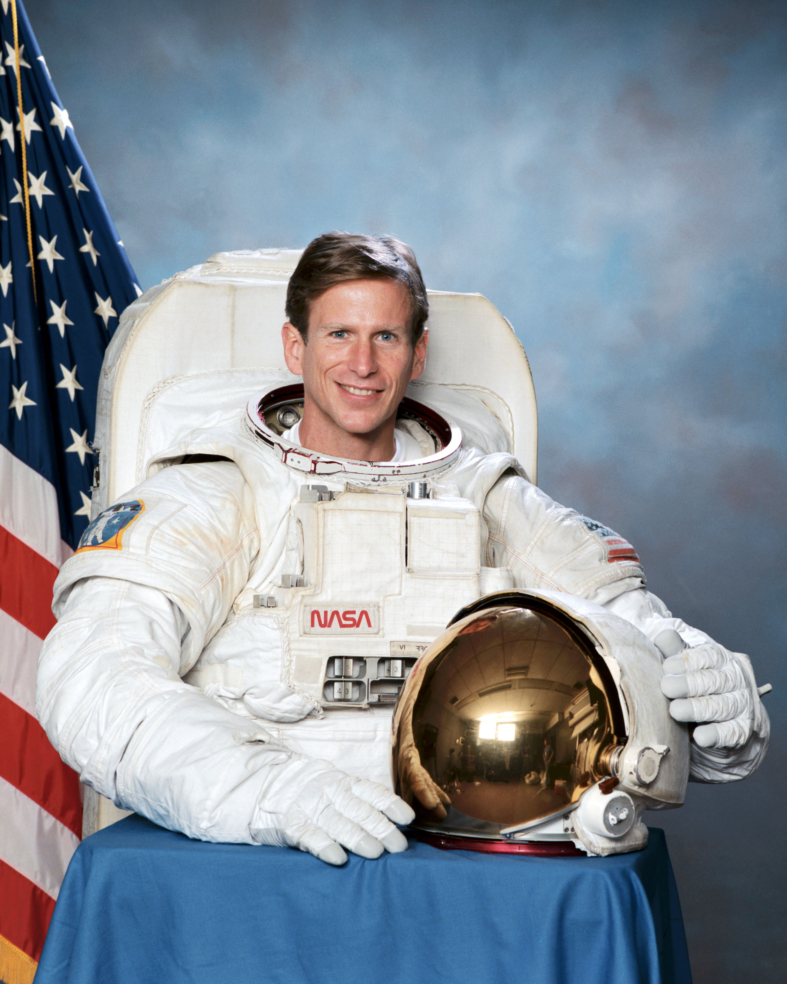 Astronaut Michael L. Gernhardt, mission specialist.